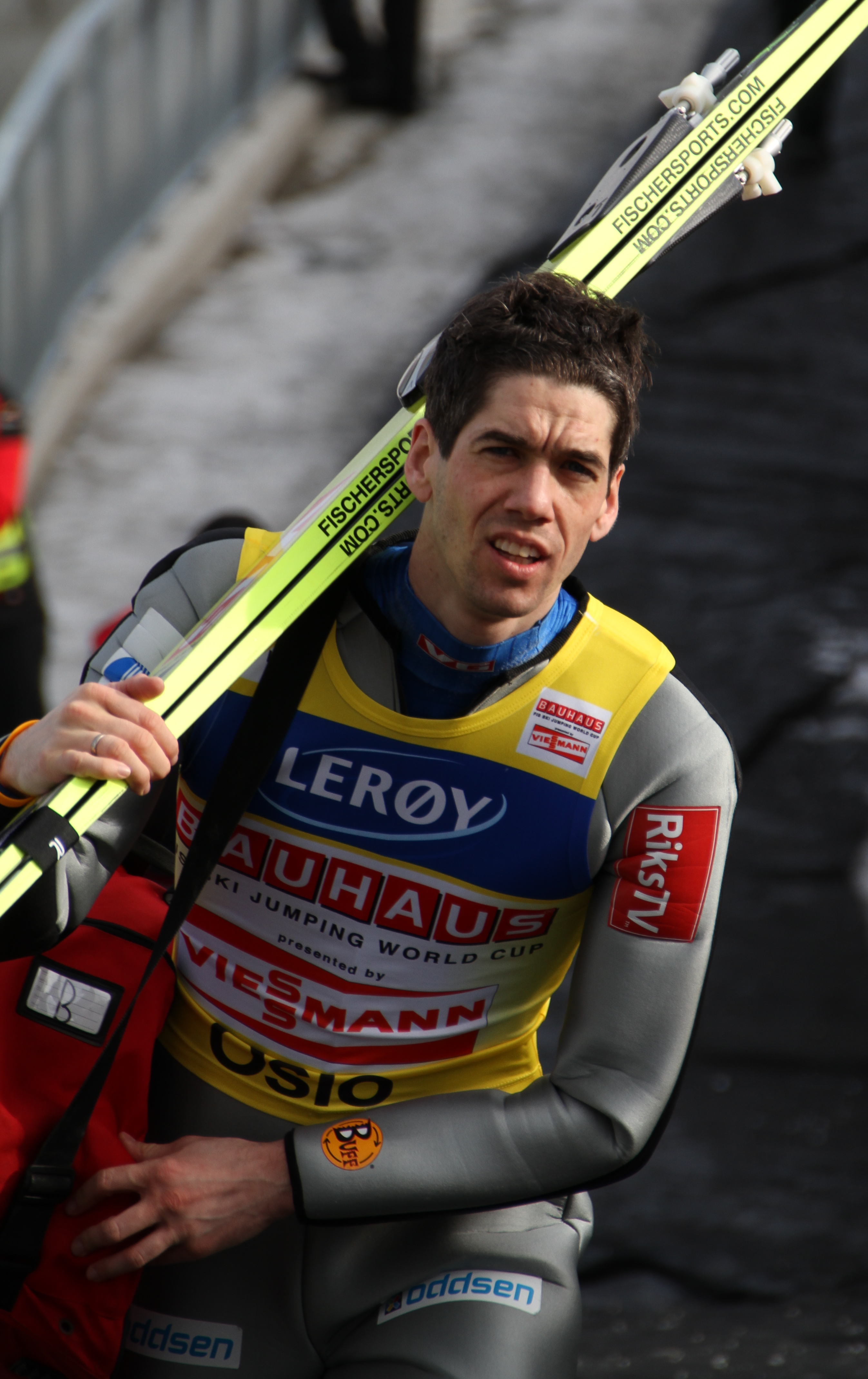 Holmenkollen, Oslo. FIS World Cup Ski Jumping, first round. March 11, 2012. This was the third last WC tournament of the season.